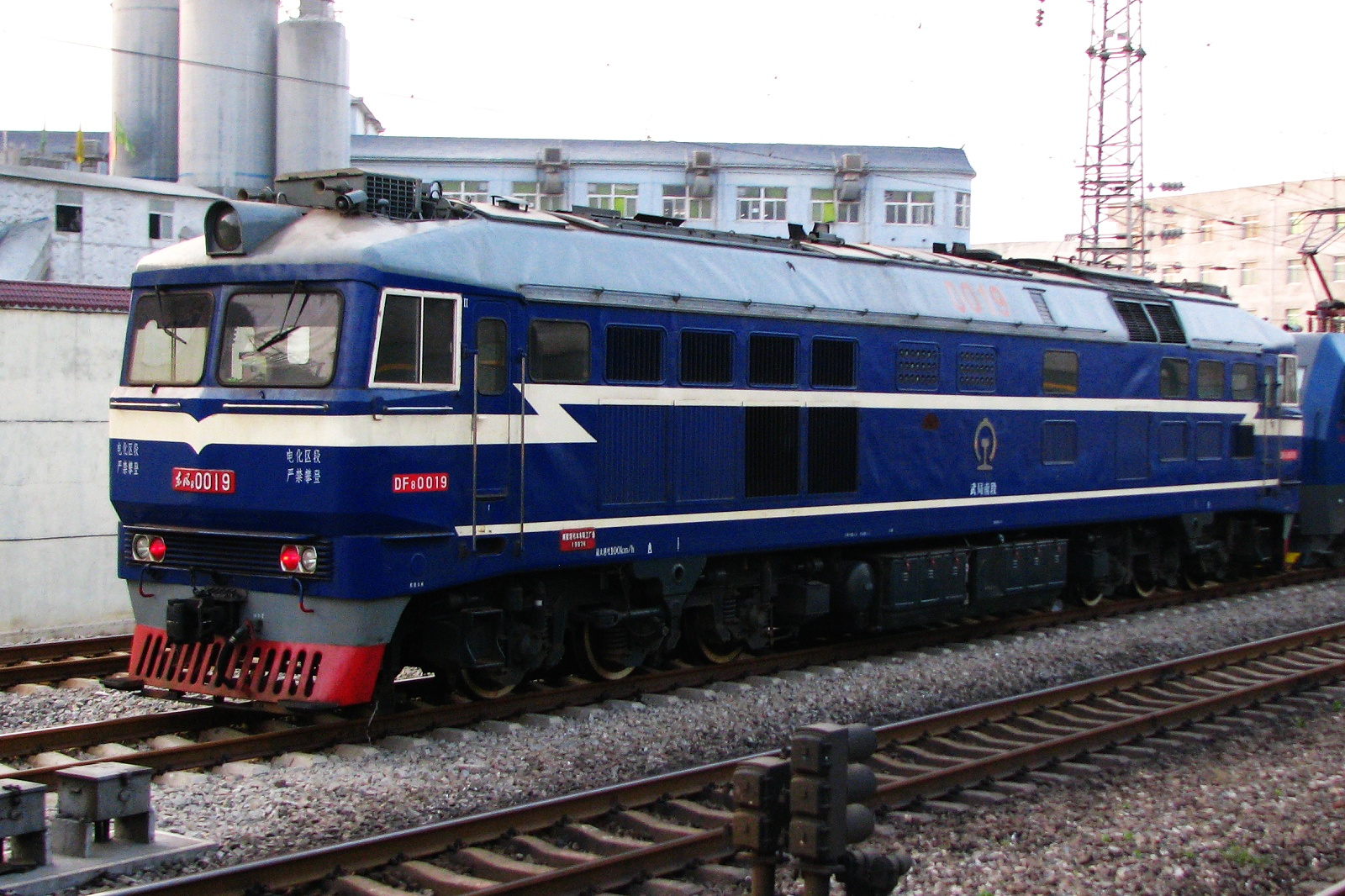 A China Railways DF8 diesel locomotive in Wuhan